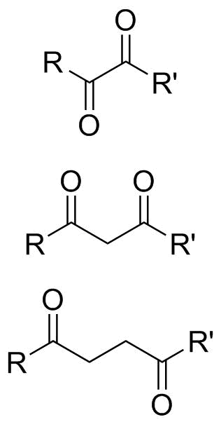 General structure of dicarbonyls, showing 1,2-, 1,3-, 1,4-dicarbonyls with undefined R-groups substituents